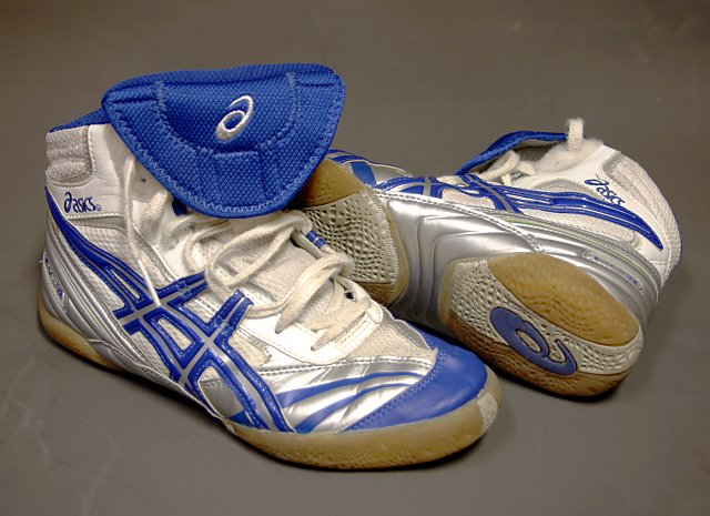 A pair of match-worn ASICS wrestling shoes, model Split Second V.